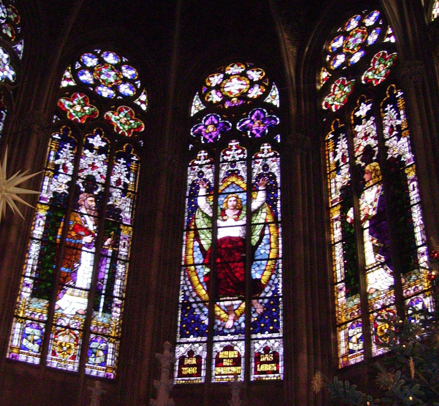 Gedächtniskirche (Memorial Church) in Speyer, Germany